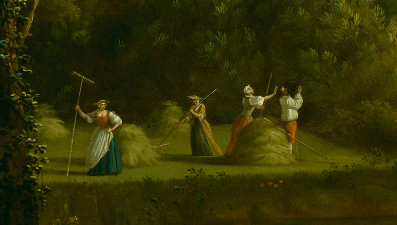 Detail of Edward Haytley's portrait of the Montagu Family at Sandleford Priory, Newtown, near Newbury, Berkshire, GB, circa 1744.jpg Image from here and before that Sotheby's 1979. Reproduction of a 1744 painting by Edward Haytley active in GB between 1740 and 1764.